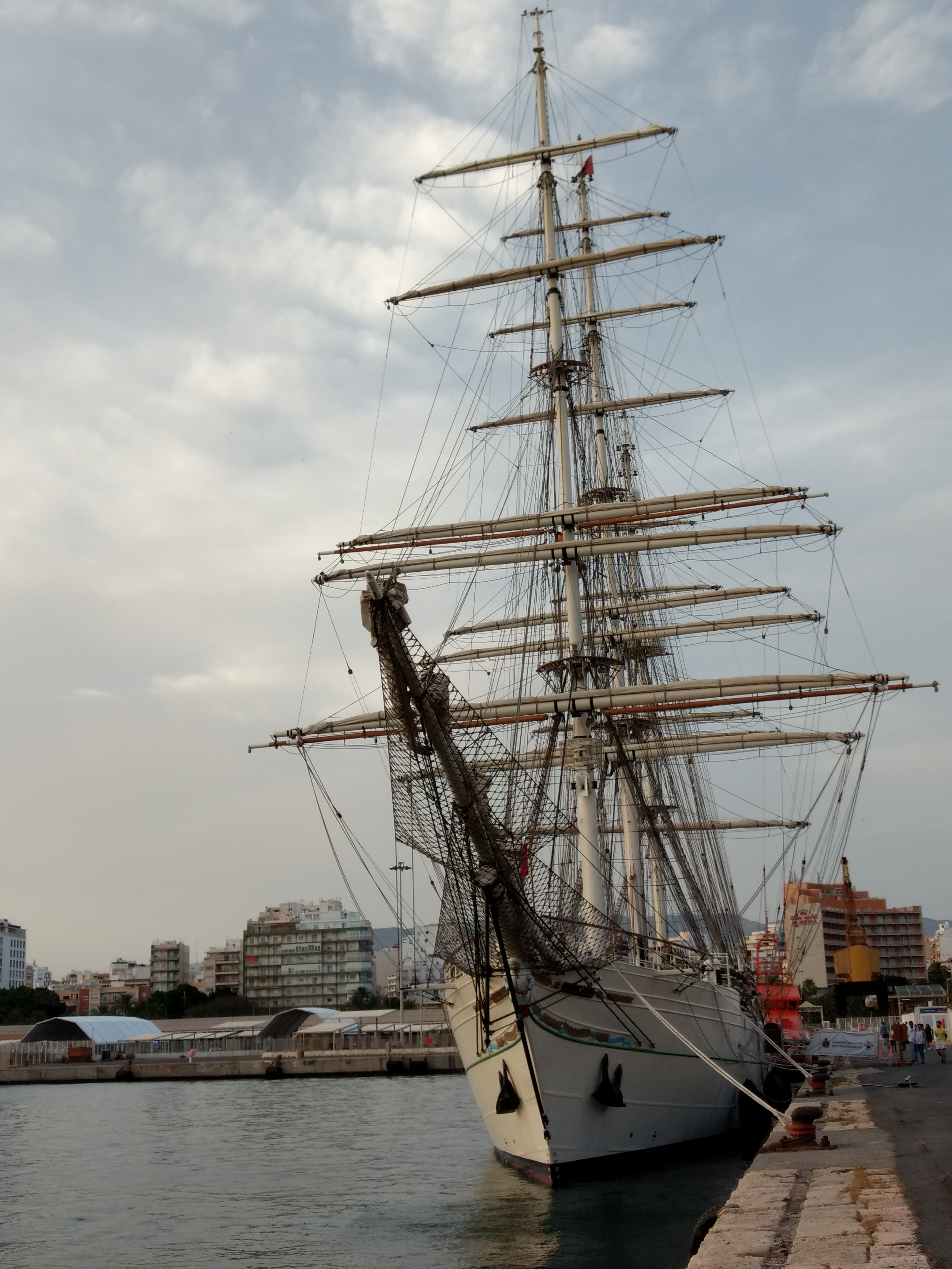 Shabab Omán II, school ship of the Royal Navy of Oman RNOV Shabab Oman II visiting the port of Almería